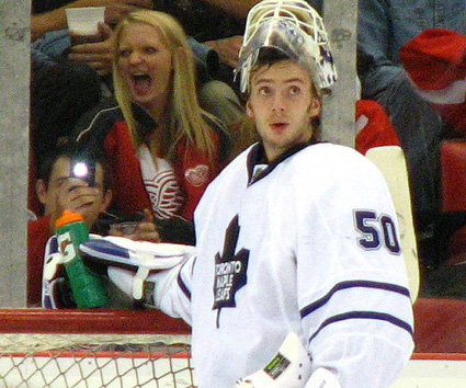 During the first period of hockey while I was capturing a picture of Toronto's new net minder, Gustavsson, many different things appear to be going on in the background!